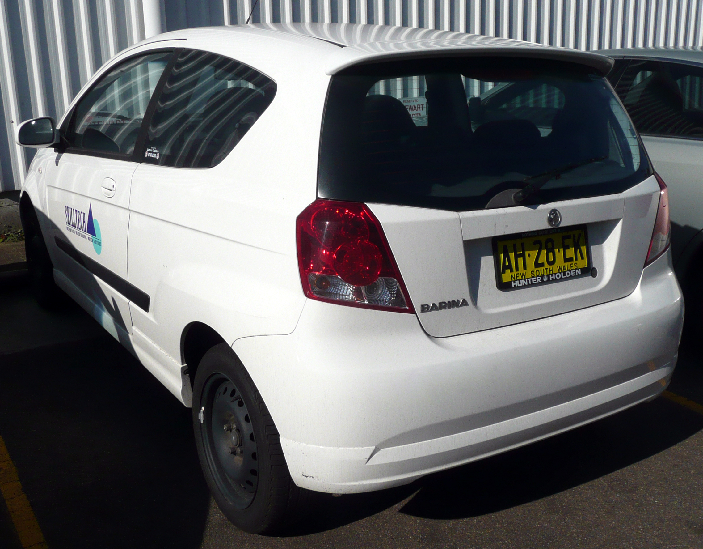 2005 Holden Barina (TK) 3-door hatchback, Skilltech. Photographed at McGrath Sutherland Holden, Kirrawee, New South Wales, Australia.